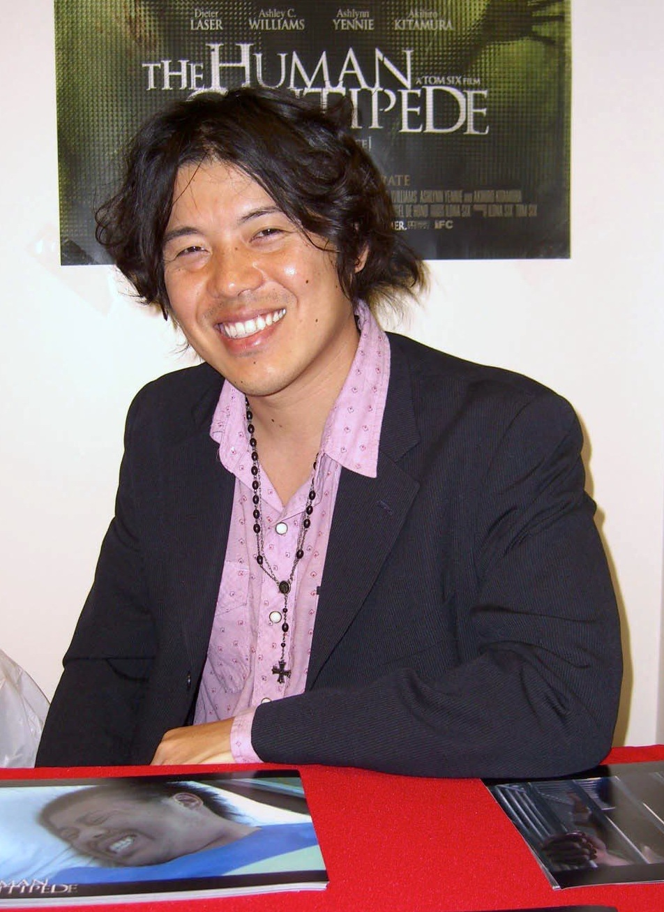 Actor Akihiro Kitamura at the Big Apple Convention in Manhattan, October 1, 2010. This photo was created by Luigi Novi. It is not in the public domain, and use of this file outside of the licensing terms is a copyright violation.